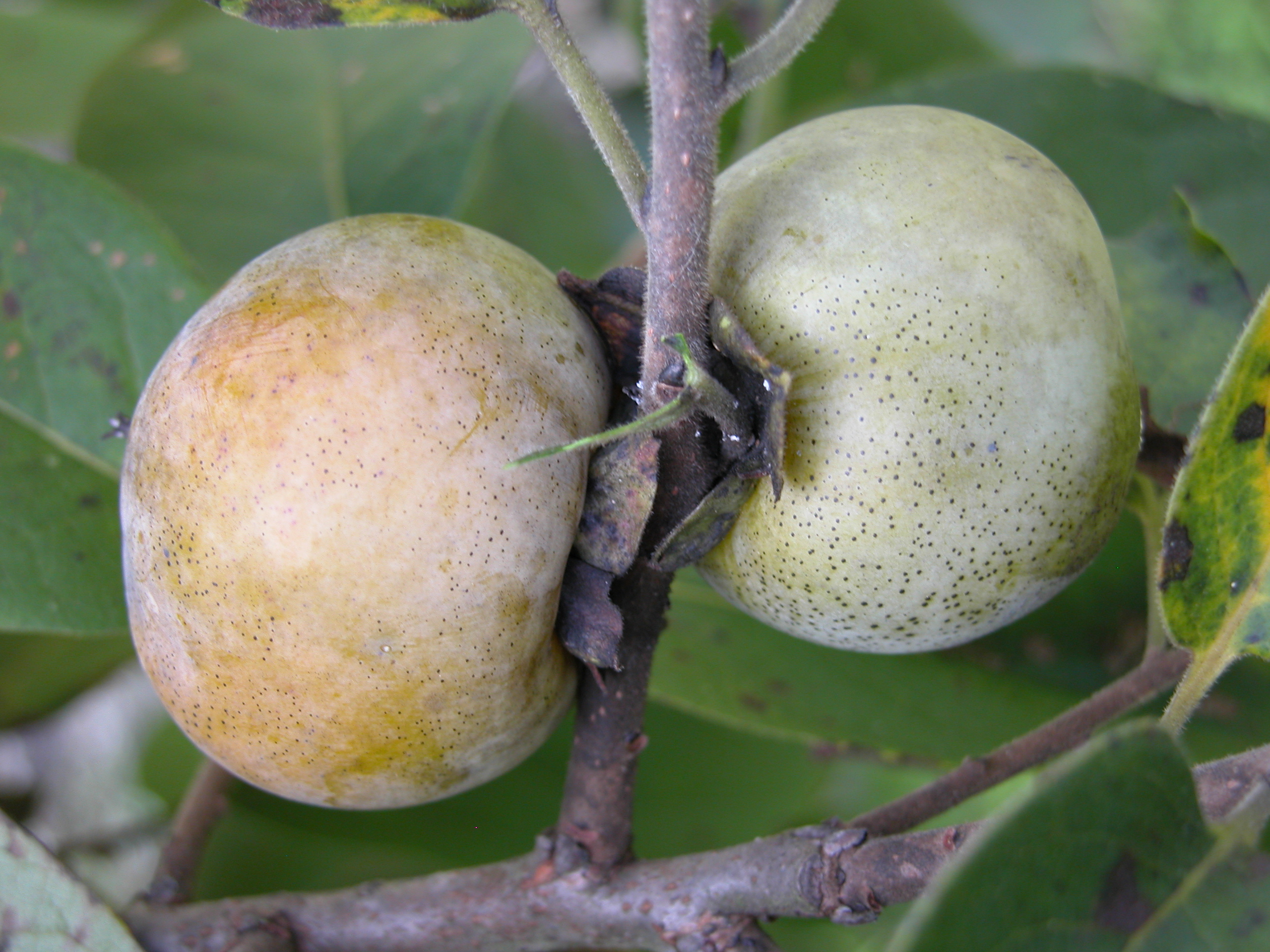 American Persimmons (Diospyros virginiana / Ebenaceae) in Tampa, Florida